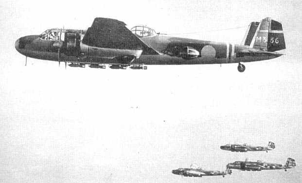 Four Japanese Navy Type 96 planes of Mihoro Naval Air Corps